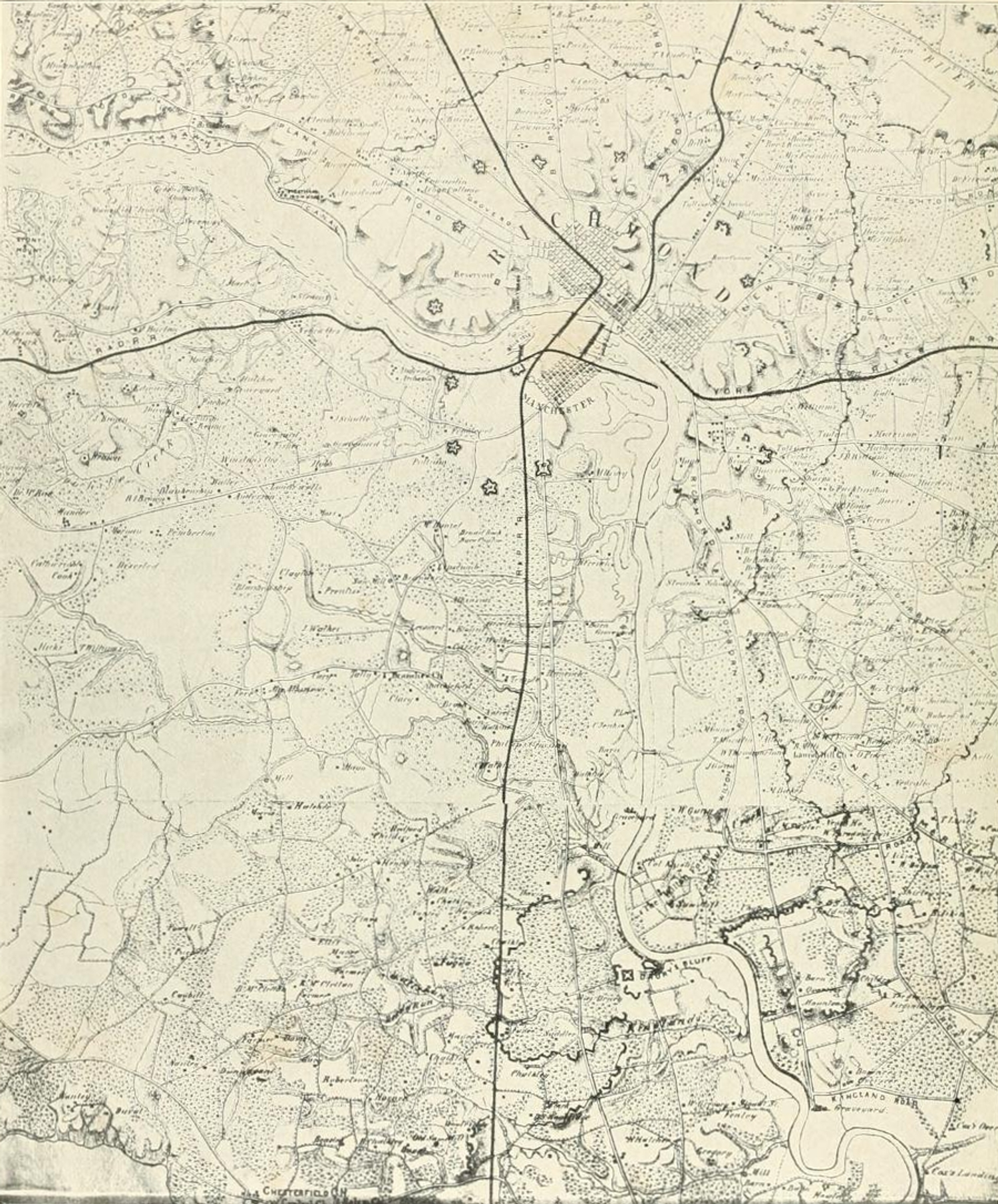 This map of Confederate defenses surrounding Richmond was recovered by Union forces from the body of Brigadier General John R. Chambliss on August 16, 1864